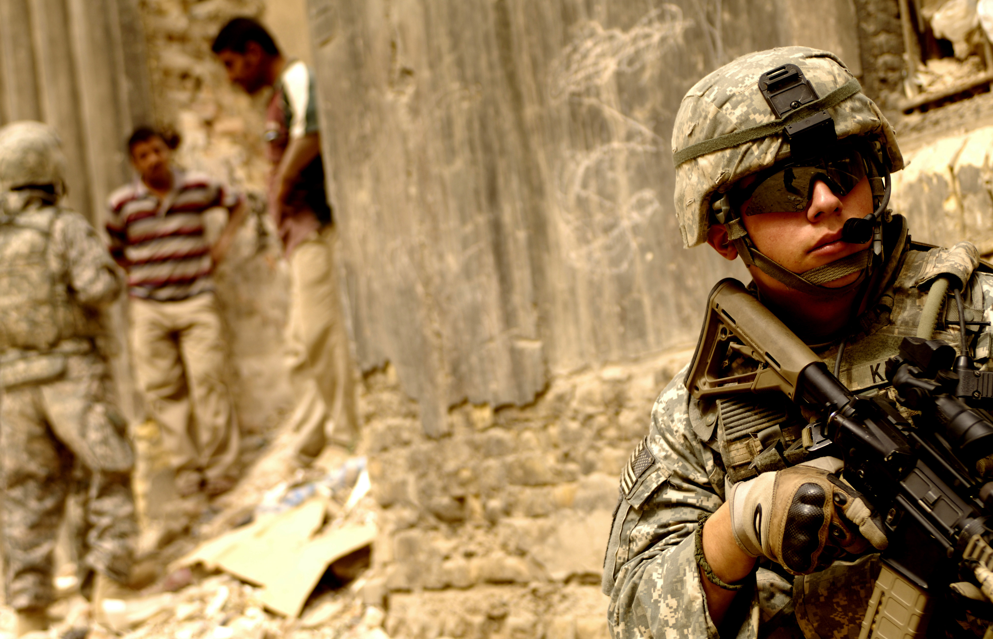 U.S. Army Spc. Andrew Kline, from Bravo Company, 418th Civil Affairs Battalion, provides security during a patrol at the Al Fadel Book Market in Baghdad, Iraq, March 27, 2008. DoD photo by Staff Sgt. Jason T. Bailey, U.S. Air Force. (